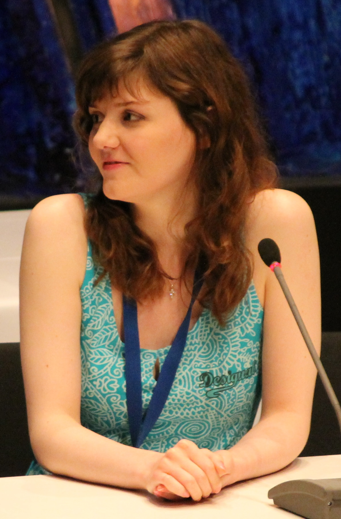 Jennifer Weiß at GalaCon 2014. Personality rights warningAlthough this work is freely licensed or in the public domain, the person(s) shown may have rights that legally restrict certain re-uses unless those depicted consent to such uses. In these cases, a model release or other evidence of consent could protect you from infringement claims.